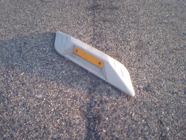 Chatter bar. This road is No use.